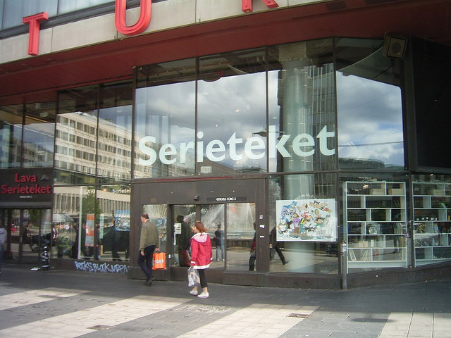 Comics Library Serieteket Stockholm